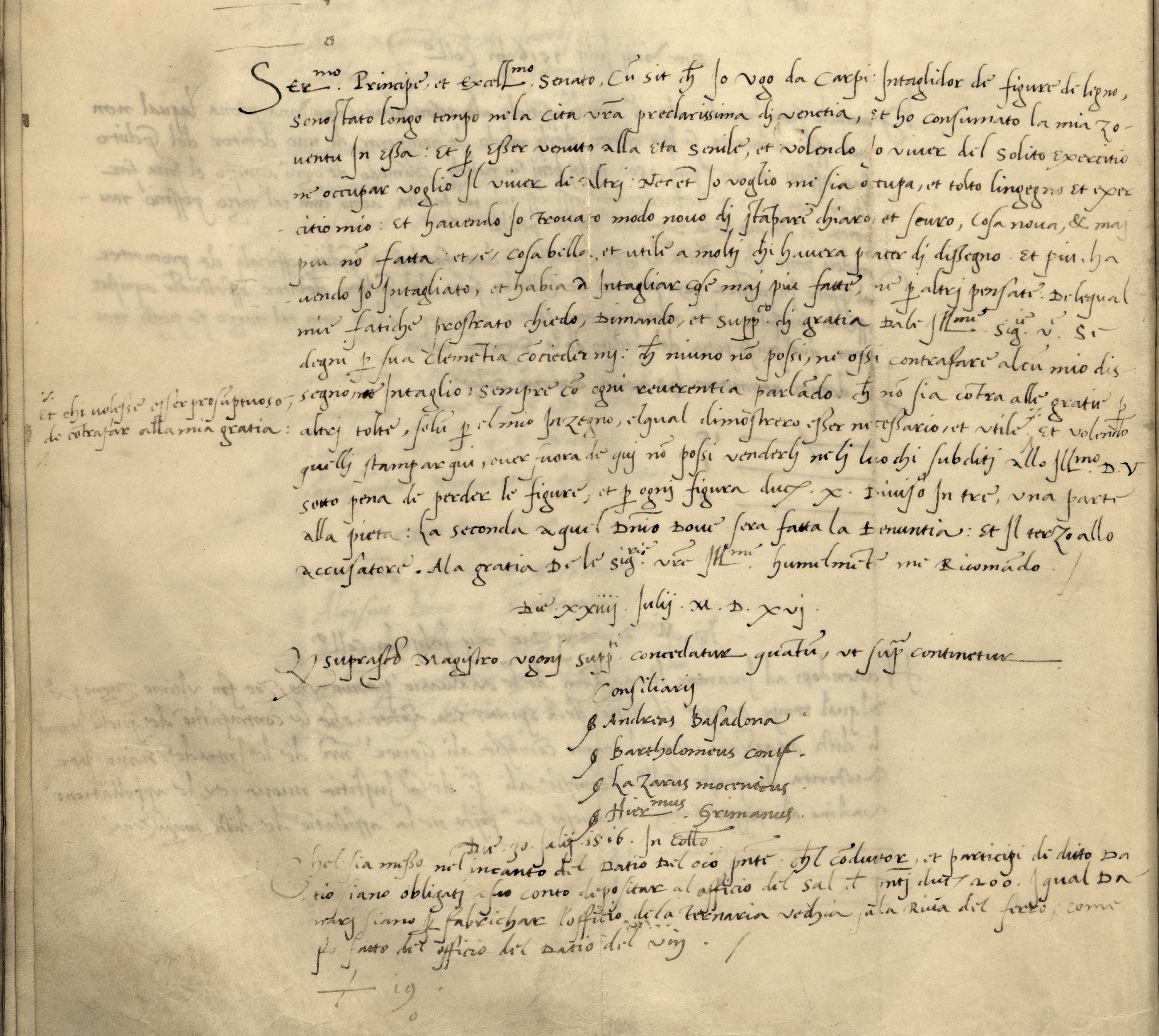 Ugo da Carpi’s patent supplication for the invention of the chiaroscuro woodcut, 1516.